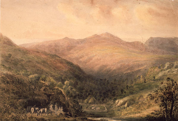 GTWB Boyes (1787-1853) The Site of Napoleon’s Tomb [1832] Watercolour and ink on paper WL Crowther Library